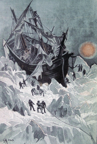 Original ilustration from George Rouxe to novel J. Verne "The Sphinx of the Ice Fields".